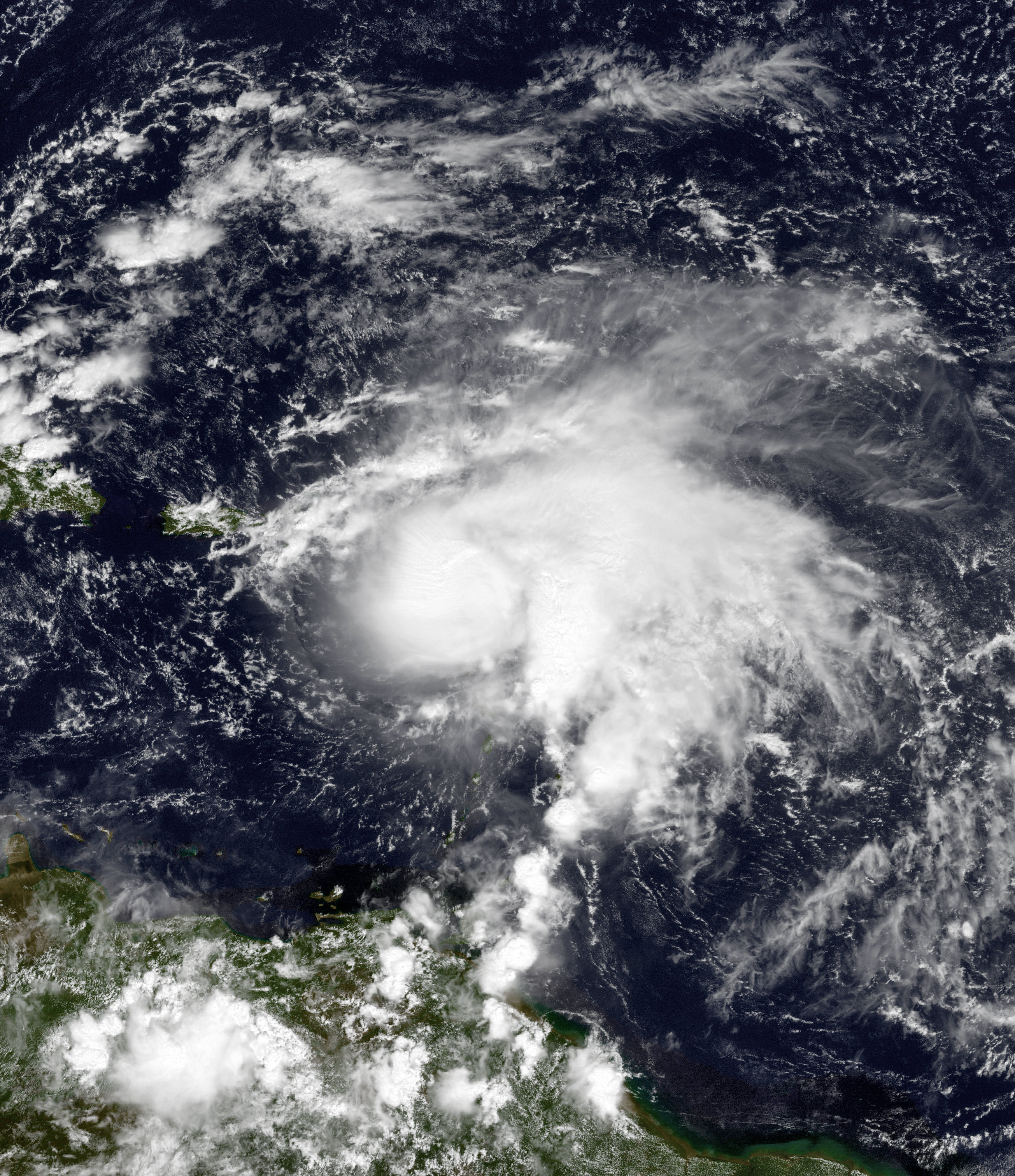 Hurricane Jose at peak intensity on October 20, 1999.